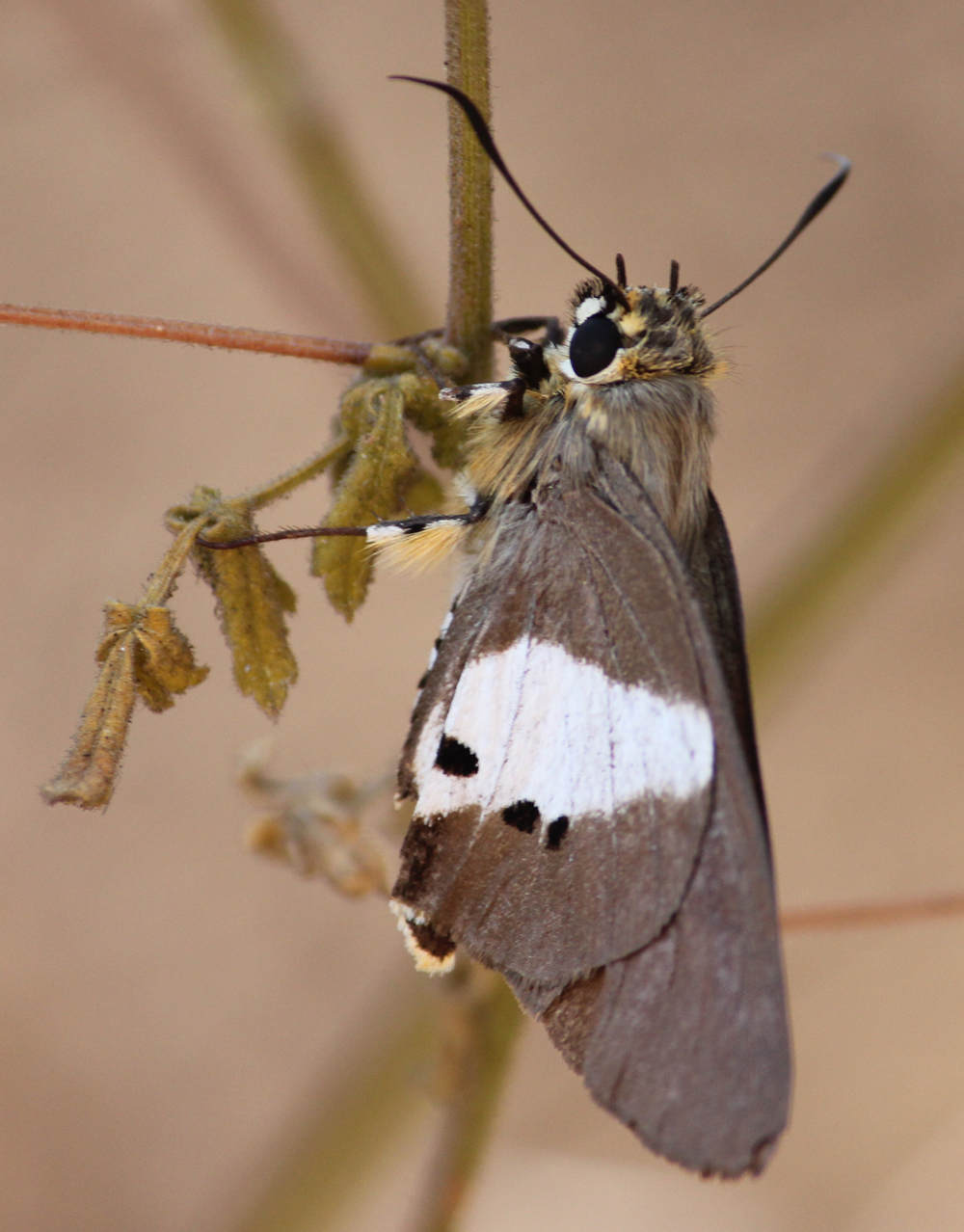 Two-pip Policeman (Coeliades pisistratus)photographed in the Sand River Gorge, Medike Mountain Sanctuary, Soutpansberg, South Africa.